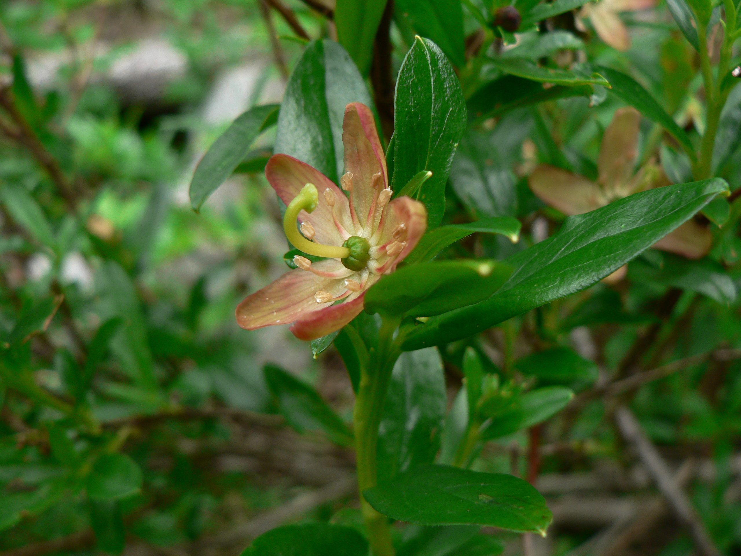 Copperbush